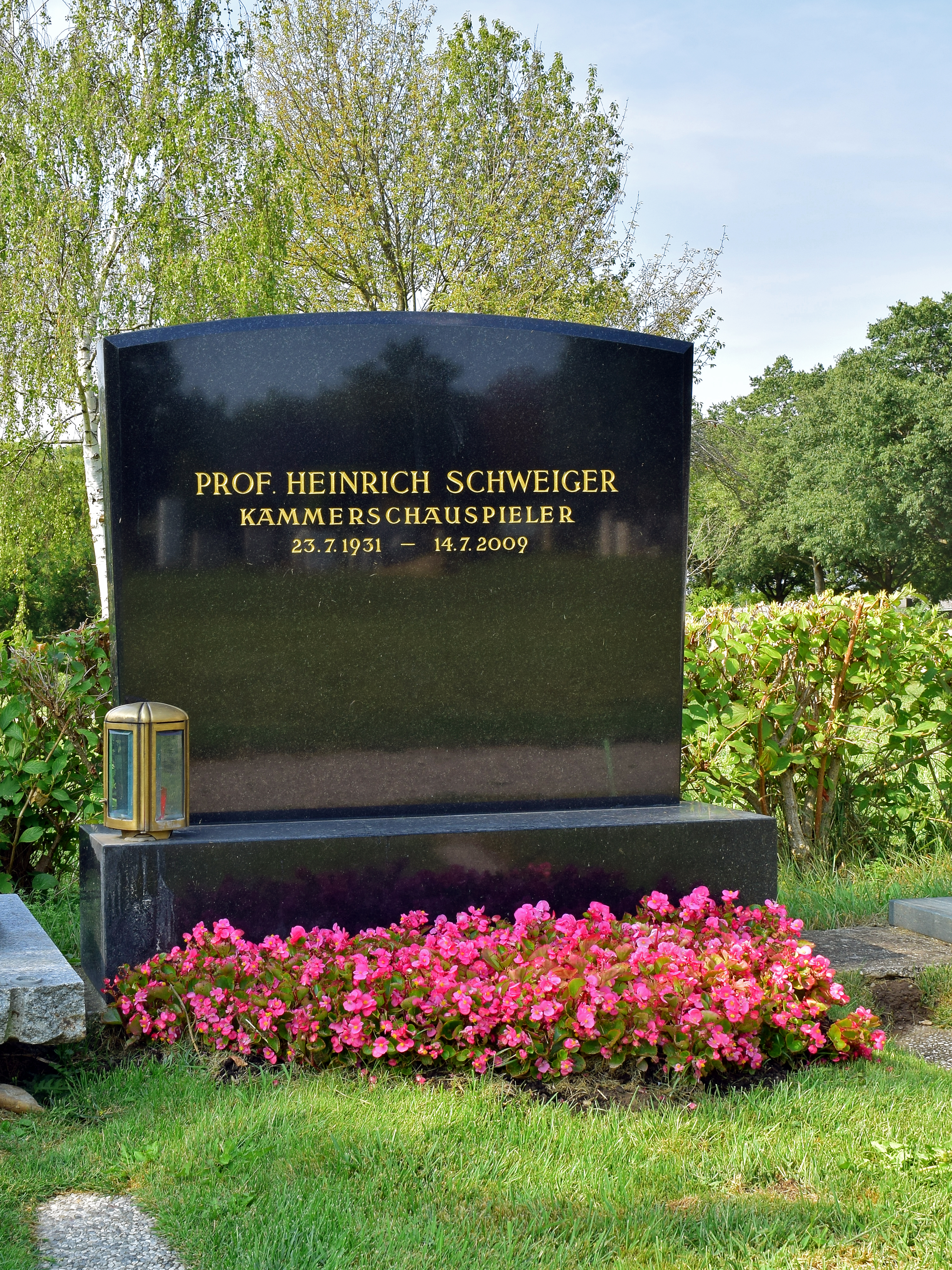 Grave of honor of Heinrich Schweiger at the Wiener Zentralfriedhof